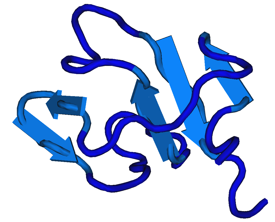 1ks0_human_fibronectin